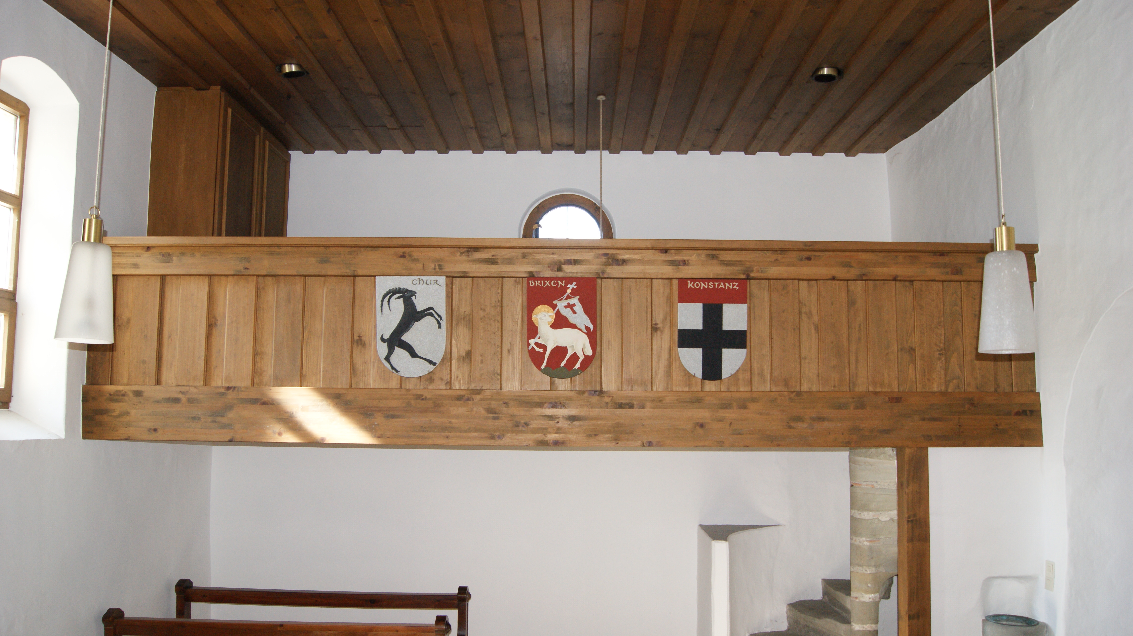 Trinity Chapel (Schwefel-Chapel) in the urban district "Schwefel" in Hohenems, Vorarlberg, Austria. Gallery with the coat of arms of the diocese of Chur, Brixen and Konstanz.